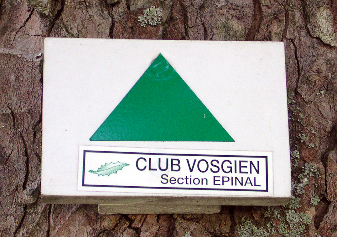 Sign put the Club Vosgien on an hiking route in the Vosges (France).